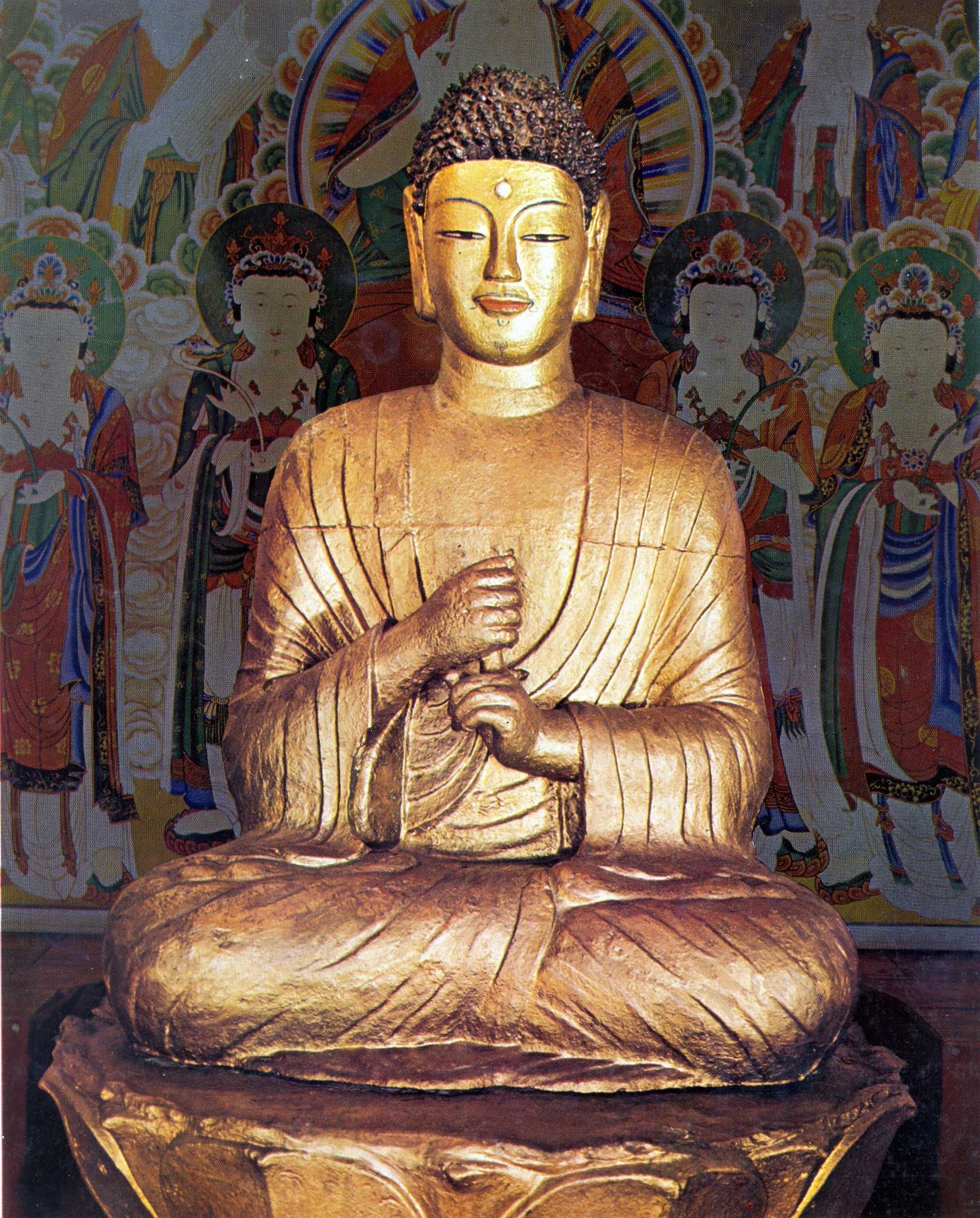 Seated Iron Vairocana Buddha of Dopiansa temple in Cheorwon, Korea